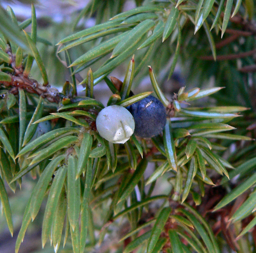 Juniperus communis var. depressa on Bristlecone Trail, Lee Canyon, Spring Mountains, southern Nevada (elev. about 2900 m)